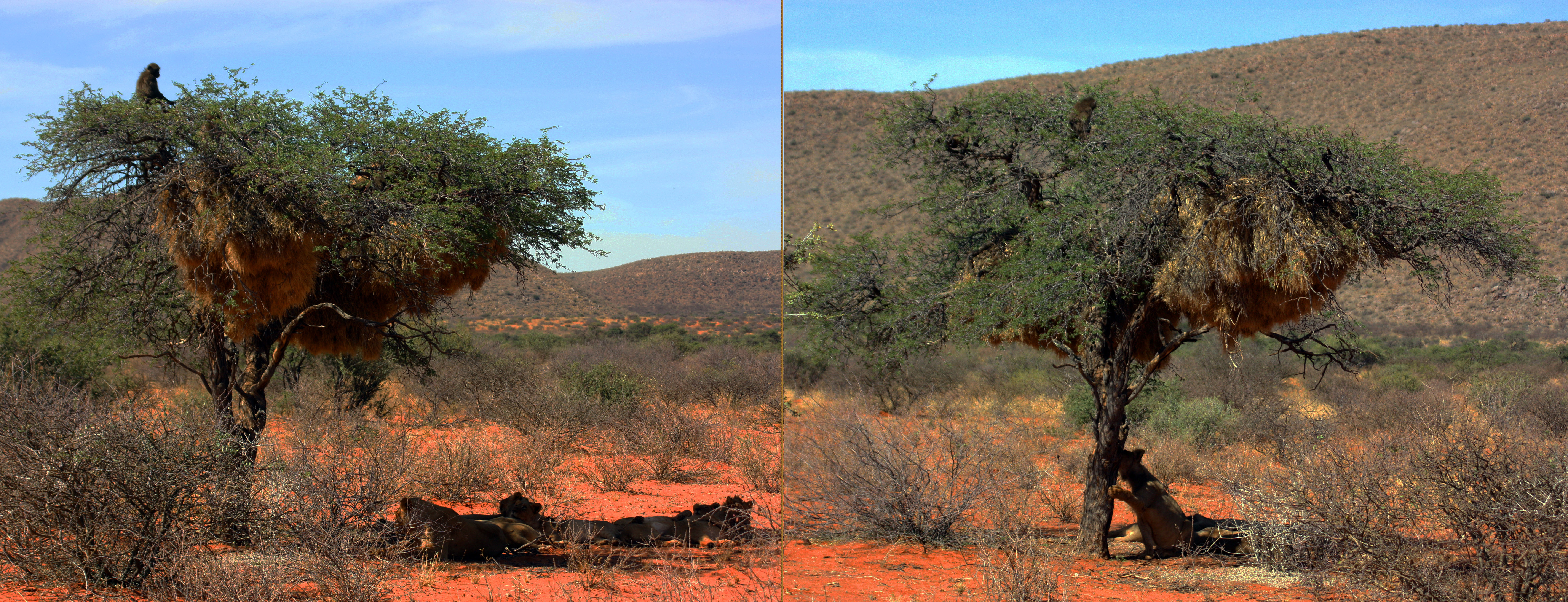 Chacma baboons (Papio ursinus) trapped up tree by Kalahari lions (Panthera leo), Tswalu Kalahari Reserve, South Africa